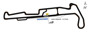 Track layout of Kari Motor Speedway.